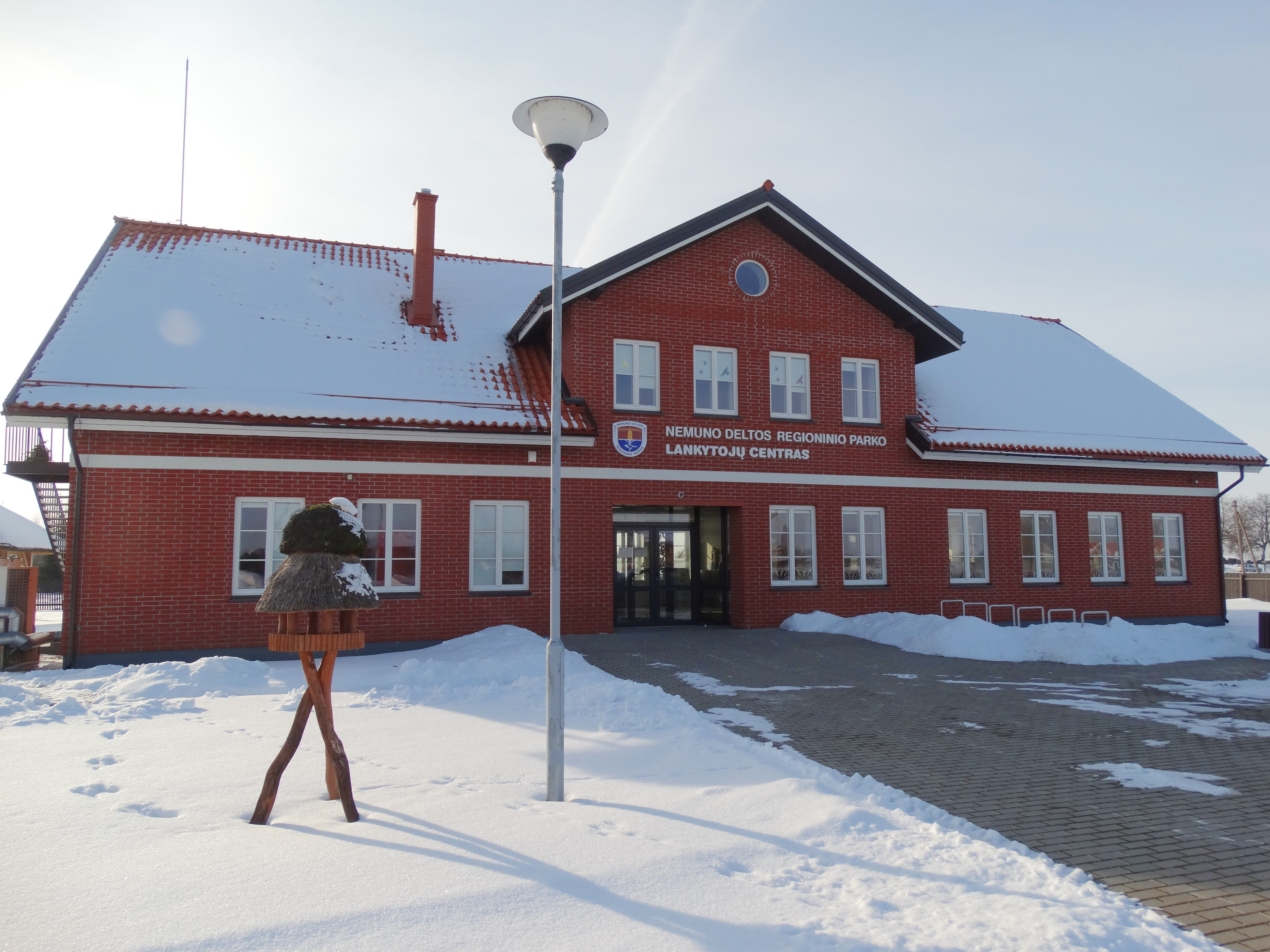 Regional park office, Rusnė, Šilutė district, Lithuania